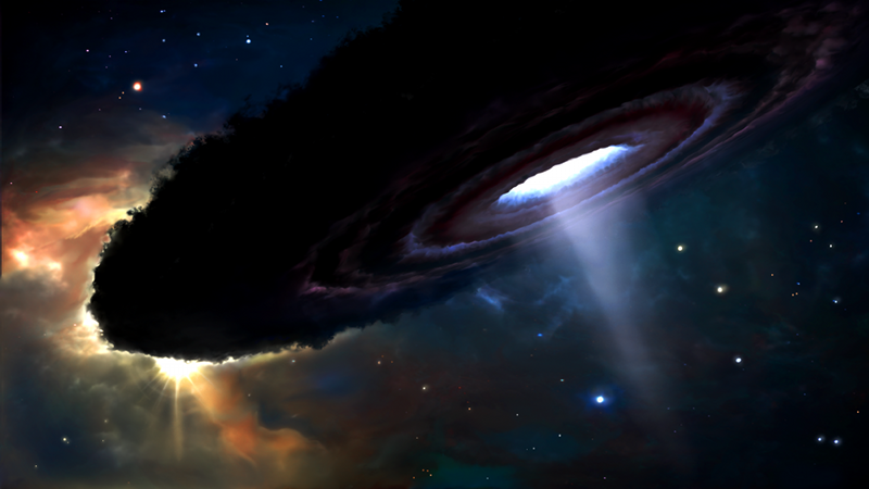 This is an artistic rendering of the epsilon Aurigae star system.